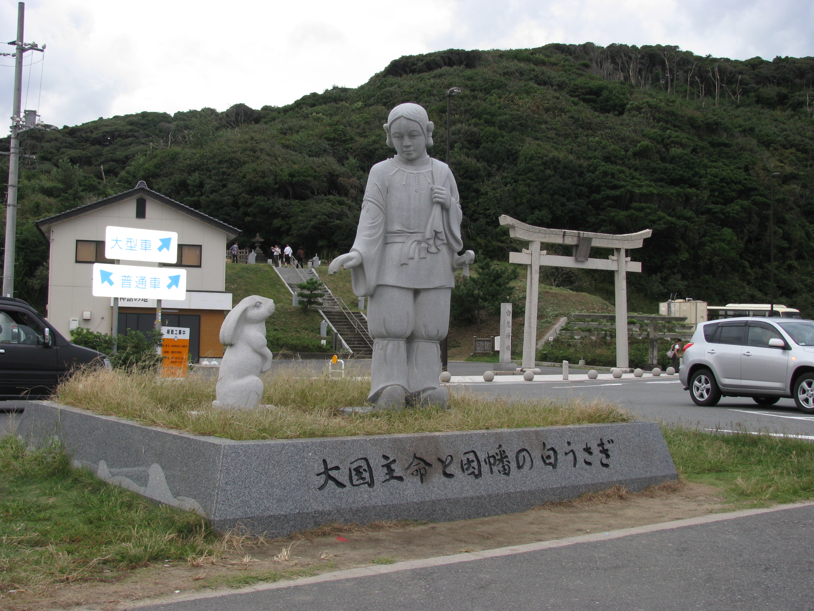 The Inaba-no-Shirousagi and Ōkuninushi. This place is Tottori, Tottori Prefecture, Japan.